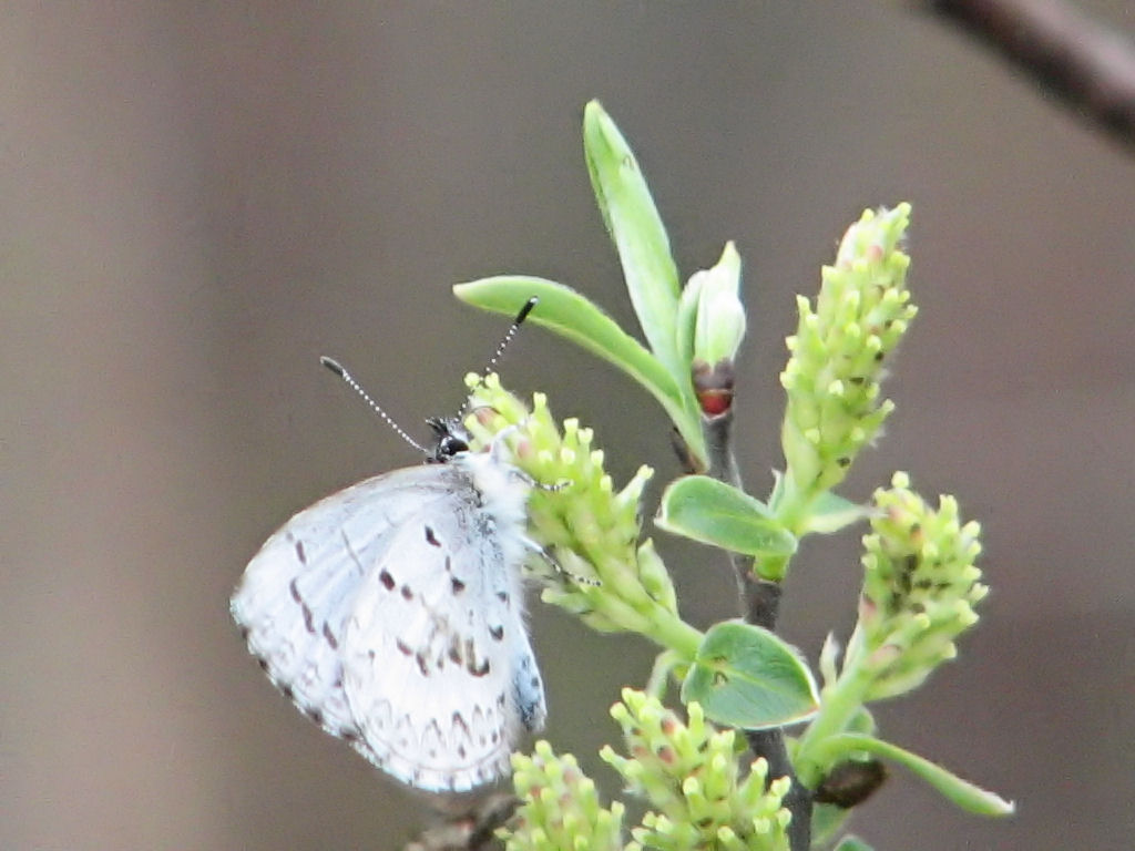 Spring Azure (Celastrina ladon) taken in Mer Bleue Conservation Area, Ottawa, Ontario